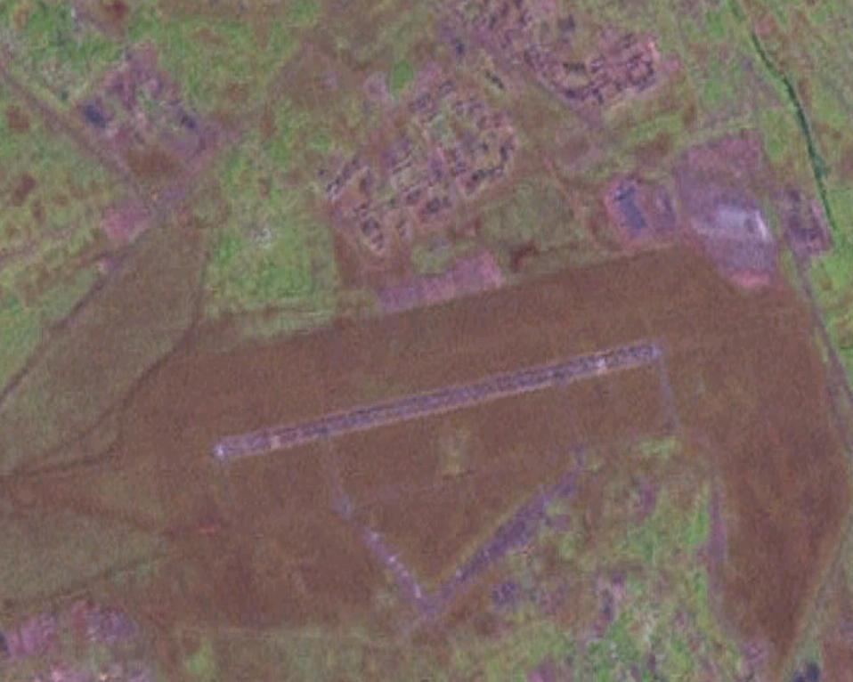 Omsk/Tsentralny airfield, former Soviet Union. Image from NASA World Wind.